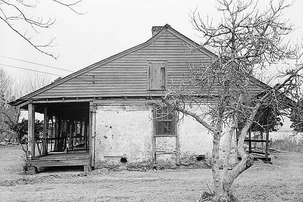 Side view (East elevation) of Old Spanish Fort, also known as Old French Fort and De La Pointe-Krebs House, Pascagoula, Jackson County, MS, USA. Constructed circa 1721. Added to National Register of Historical Places 1971-09-03.